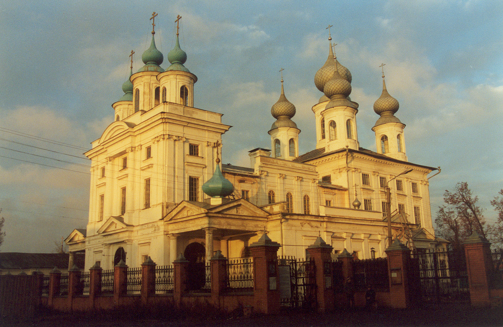 Cathedral in Shuya, Russian Federation. Photo by Elena Yulchieva, 5 November 2000.